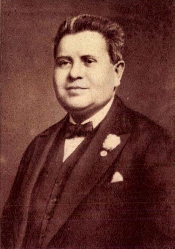 A picture of Paul Kern (Kern Pál) in 1930.